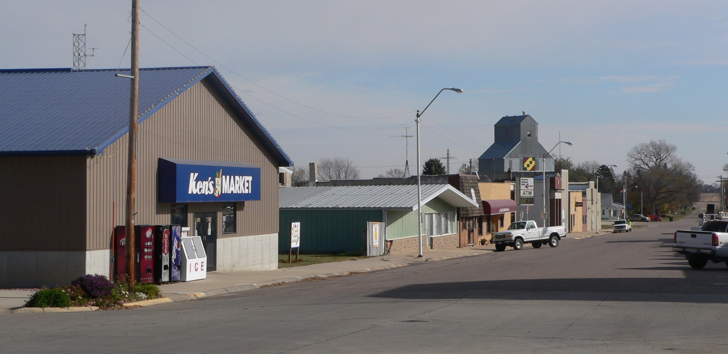 Downtown Coleridge, Nebraska: north side of Broadway, looking northeast from about Elm.